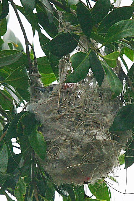 Striped Honeyeater on nest, Newcastle NSW